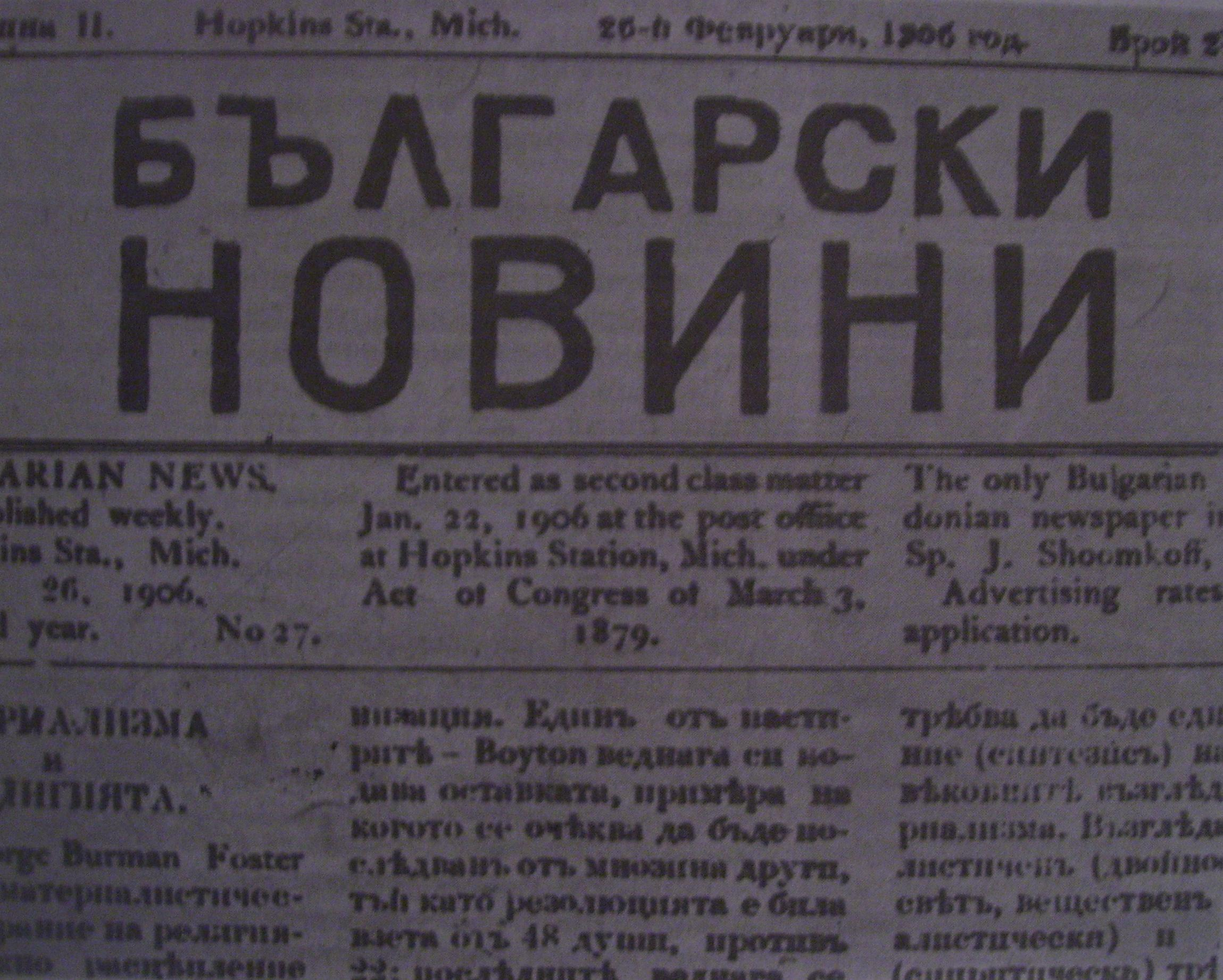 Balgarski Novini